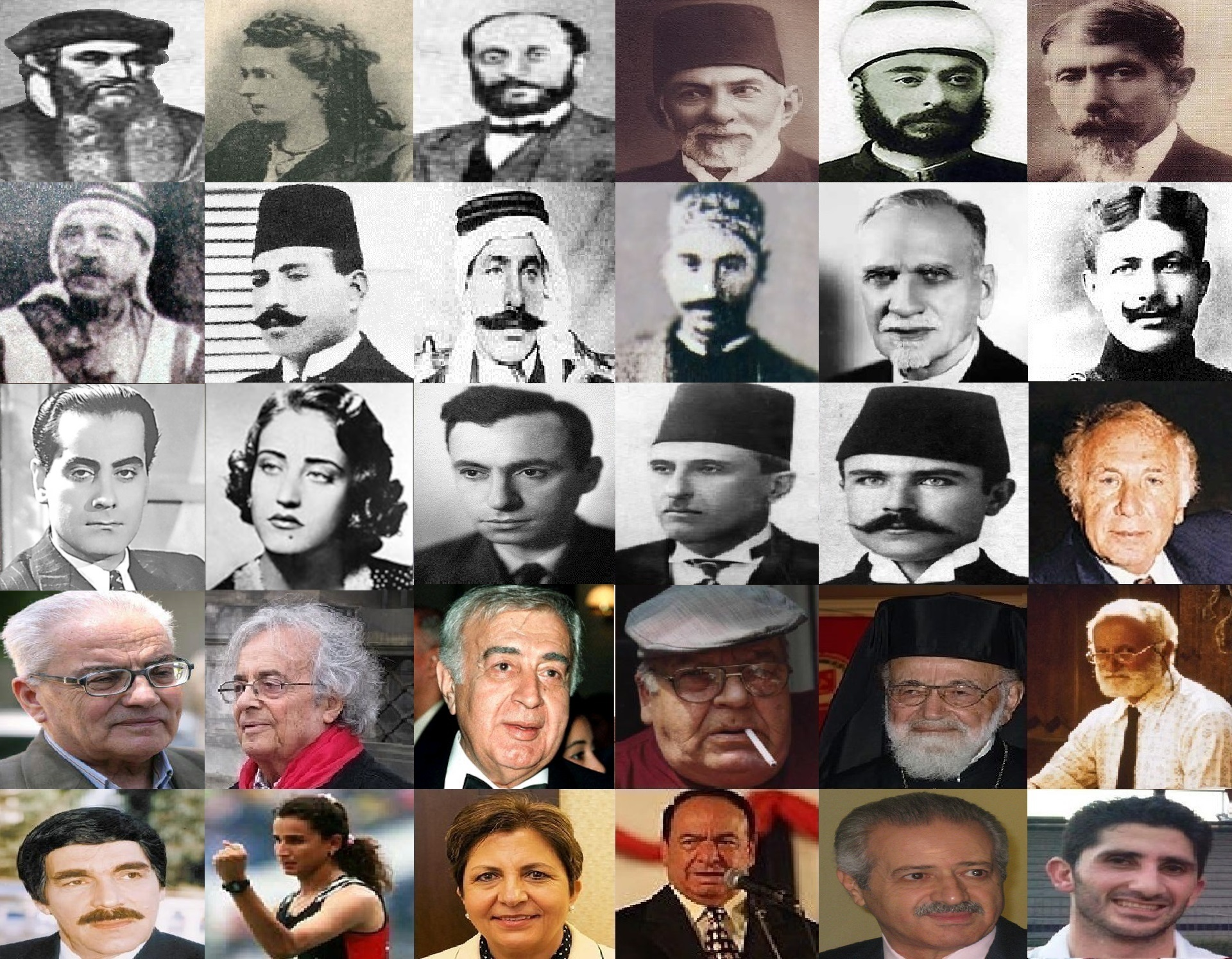 Collage of 30 famous Syrian People